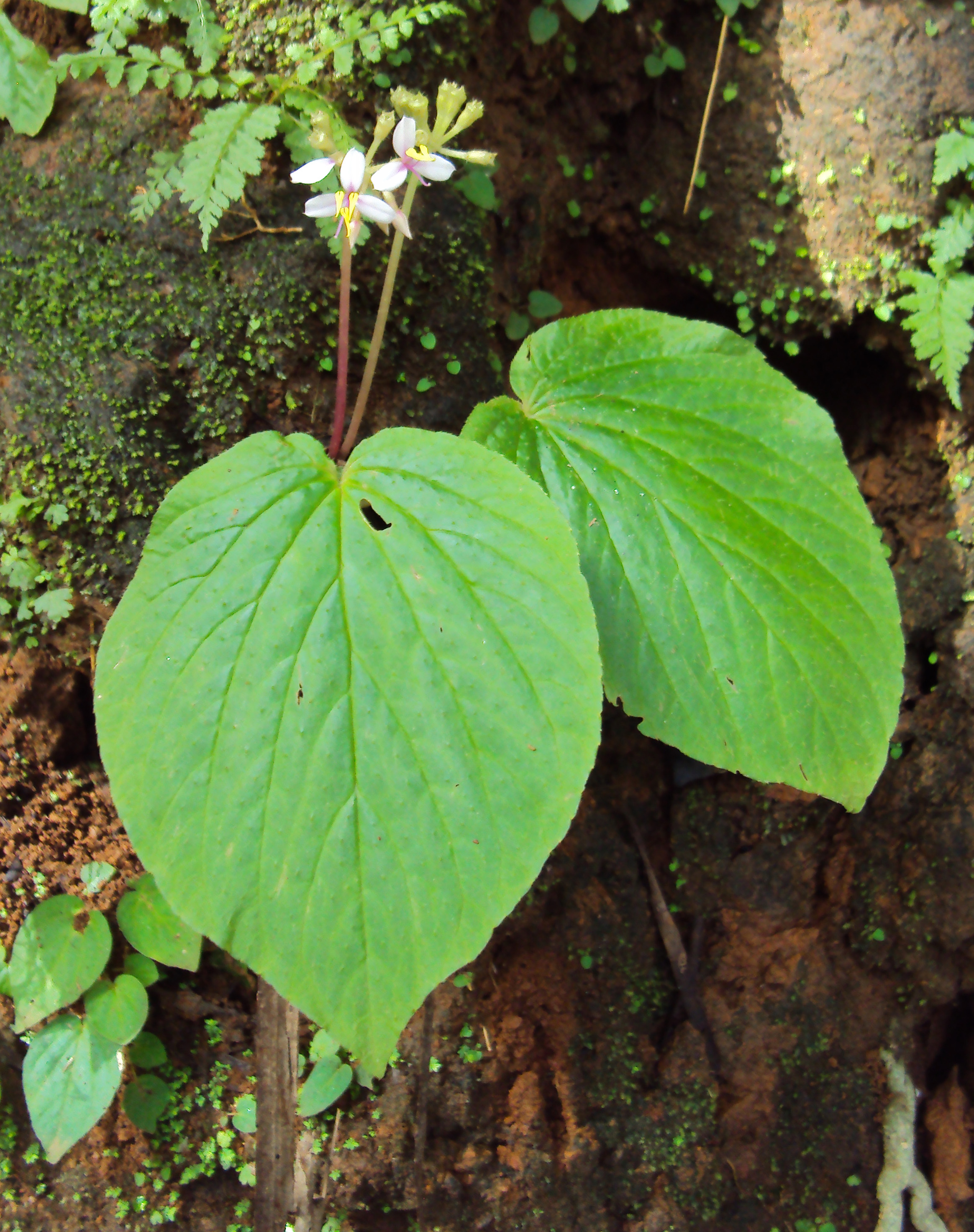 Sonerila wallichii